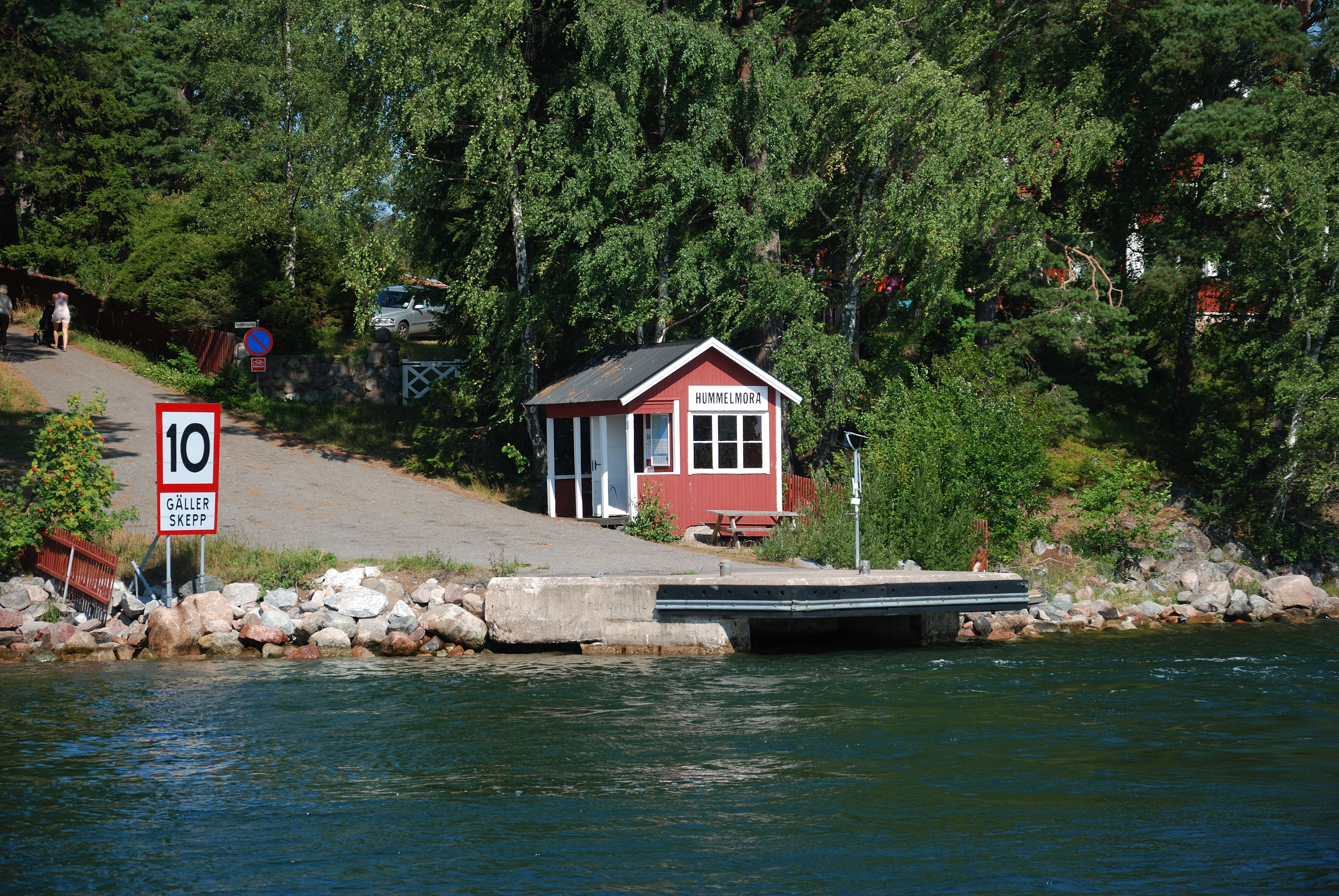 Hummelmora